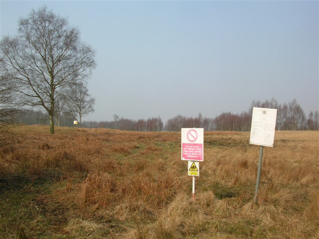 Military firing range This is taken from a stile off the Towthorpe road. I went no further! Flags were flying and gunshot could be heard.